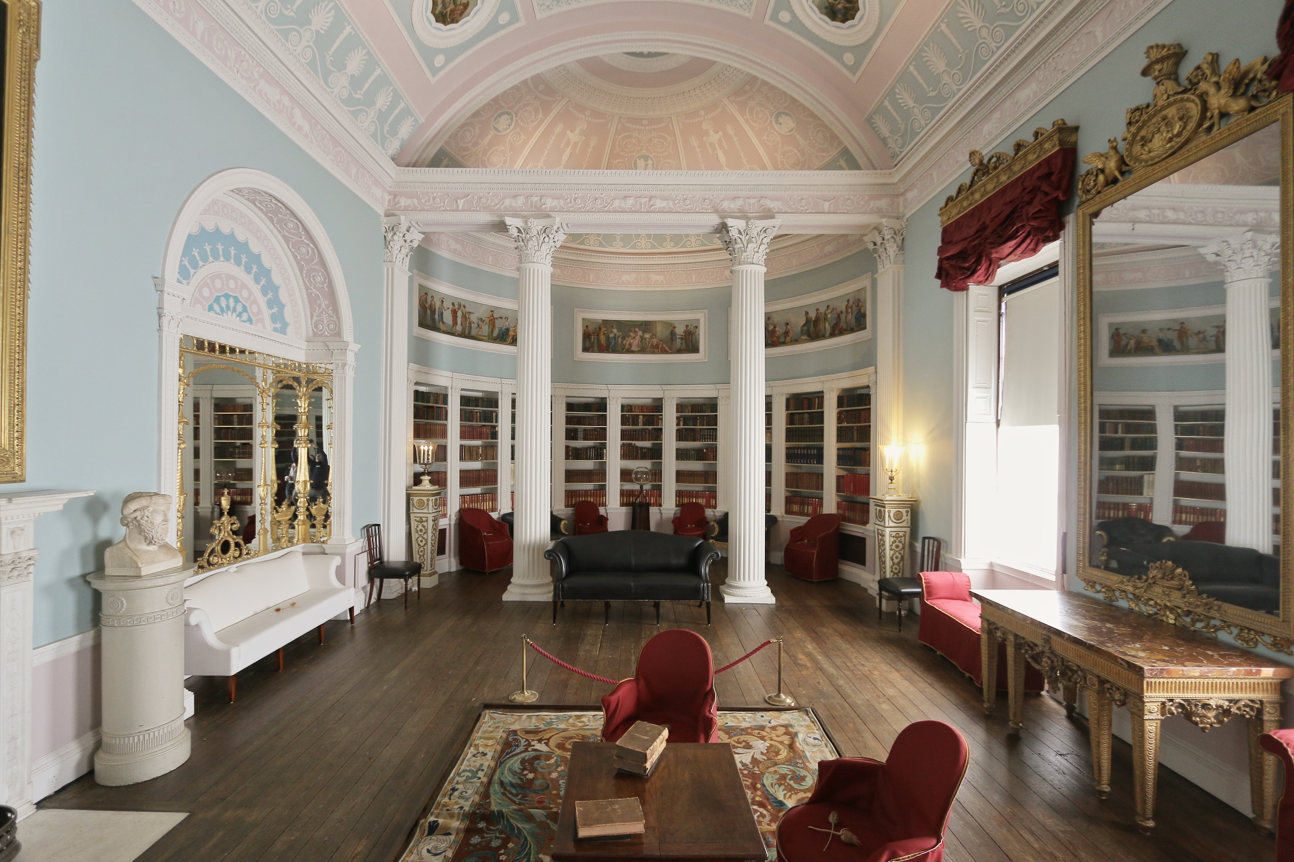 Kenwood-House in Hampstead Heath, London